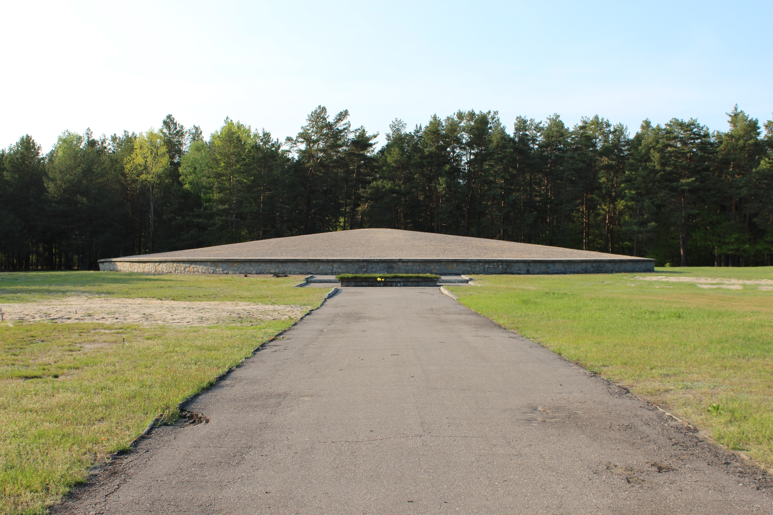 Sobibór german extermination camp